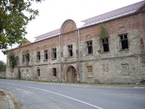 Vladičanski dvor Pakrac,zapadna slavonija,croatia